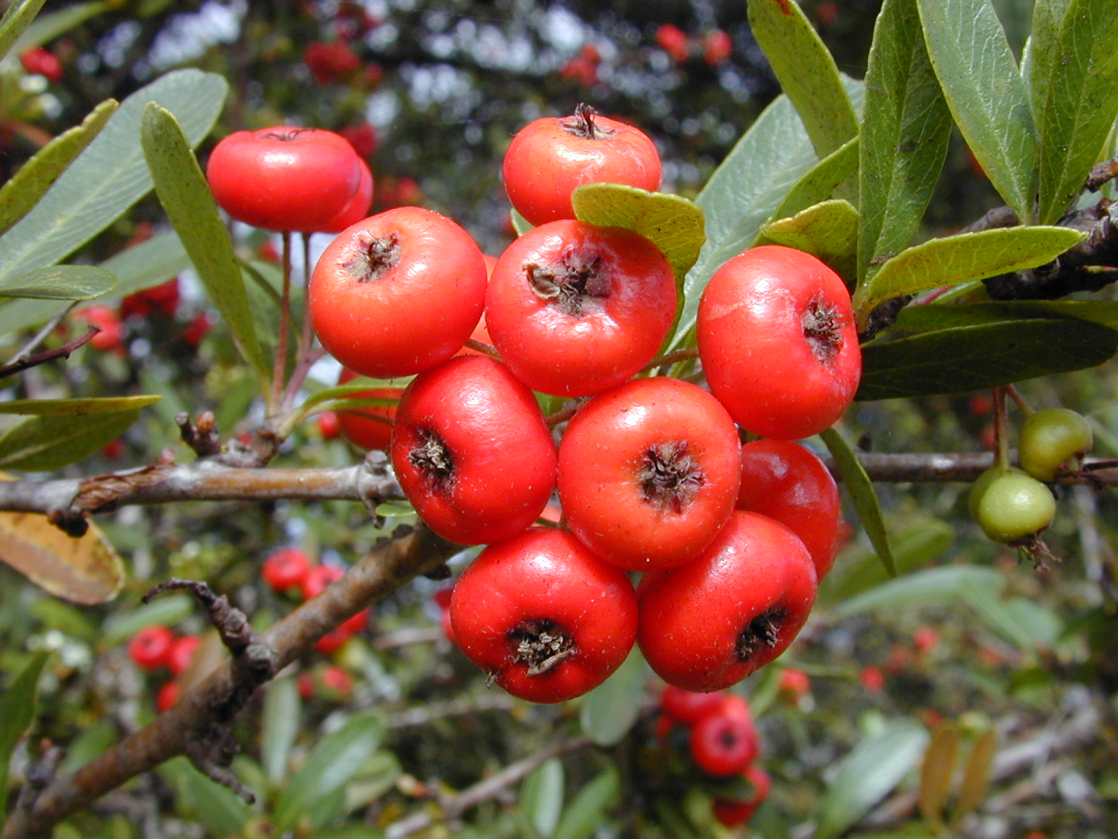 Pyracantha koidzumii (fruits). Location: Maui, Crater Road Kula